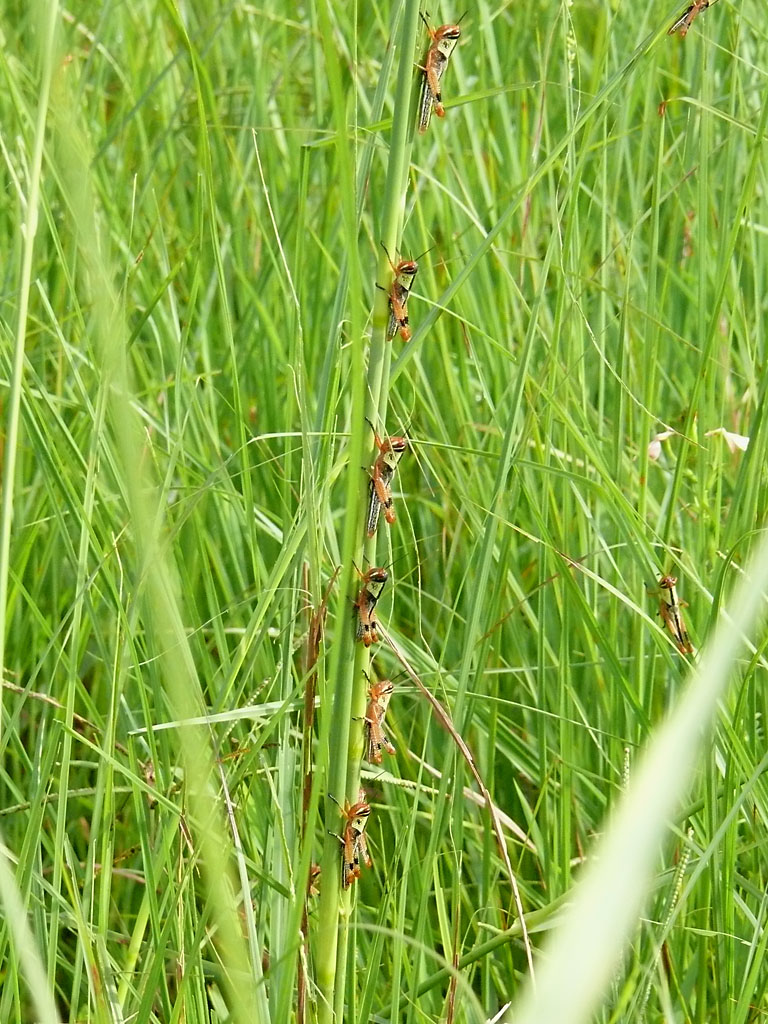 Red locust hoppers (Nomadacris septemfasciata) on Hyparrhenia stalk photographed in the Iku Plains of Katavi National Park, Tanzania